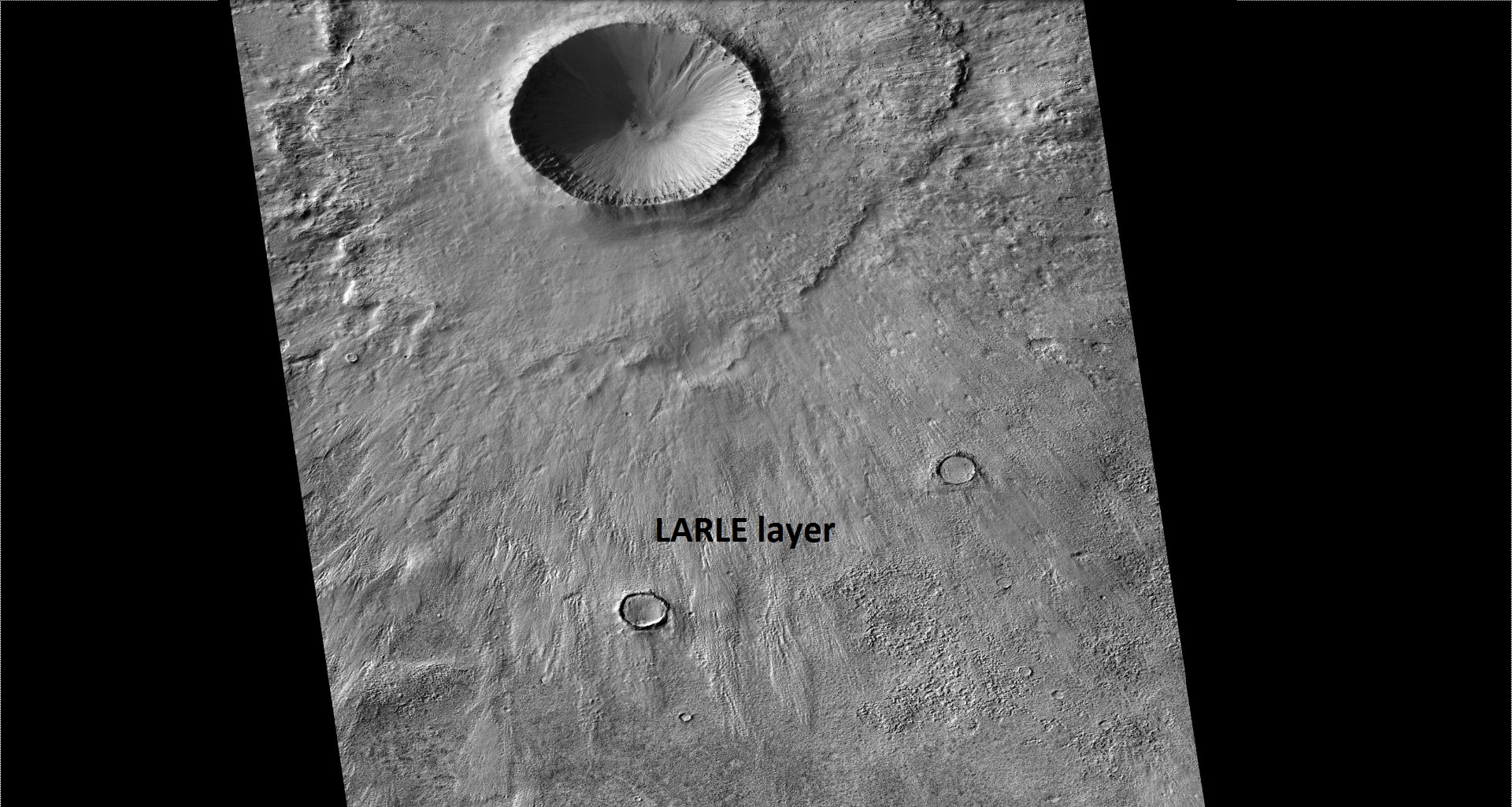 LARLE crater with larle layer labeled Larle layer is fine-grained eventually goes away. This type of crater may turn into a pedestal crater.